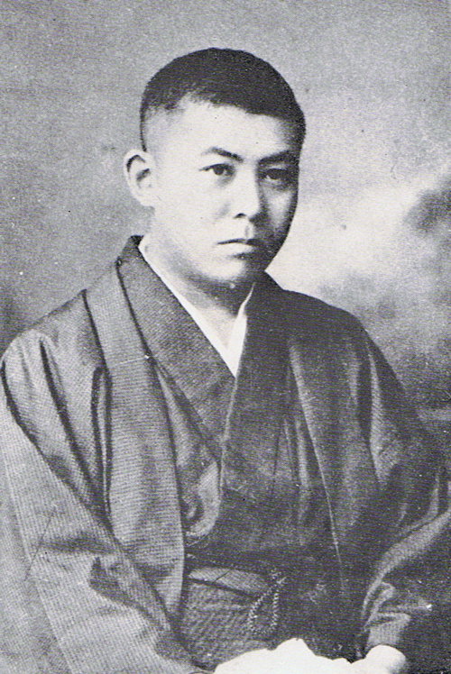 26 or 27 year-old Jun'ichirō Tanizaki, in 1913.